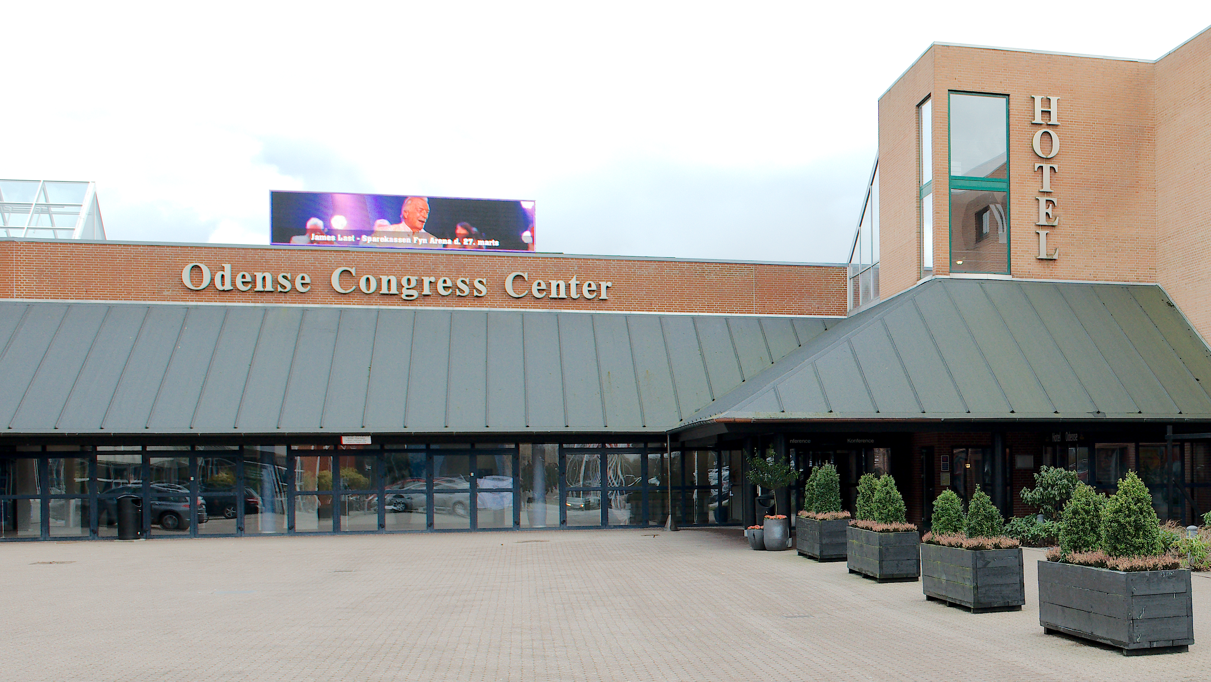 Odense Congress Center - Main entrance